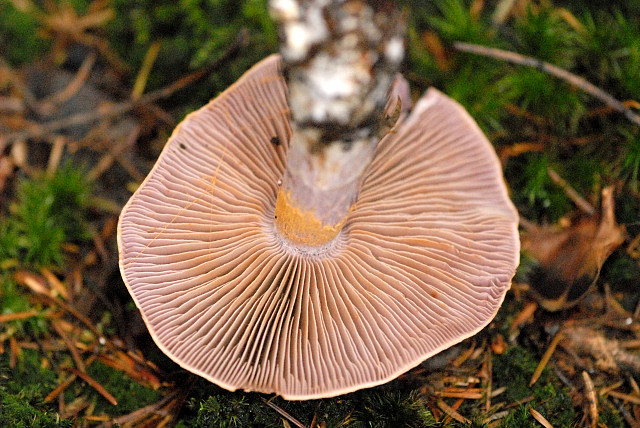 Cortinarius camphoratus from Commanster, Belgium. If you think this is a different taxon, please contact James Lindsey.